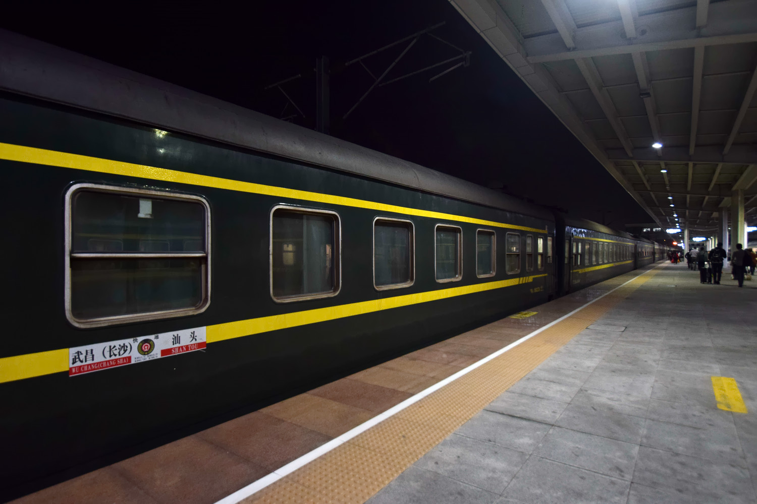 K9013 train was stopping at platform 3 of Dongguan Dong (East) Railway Station.